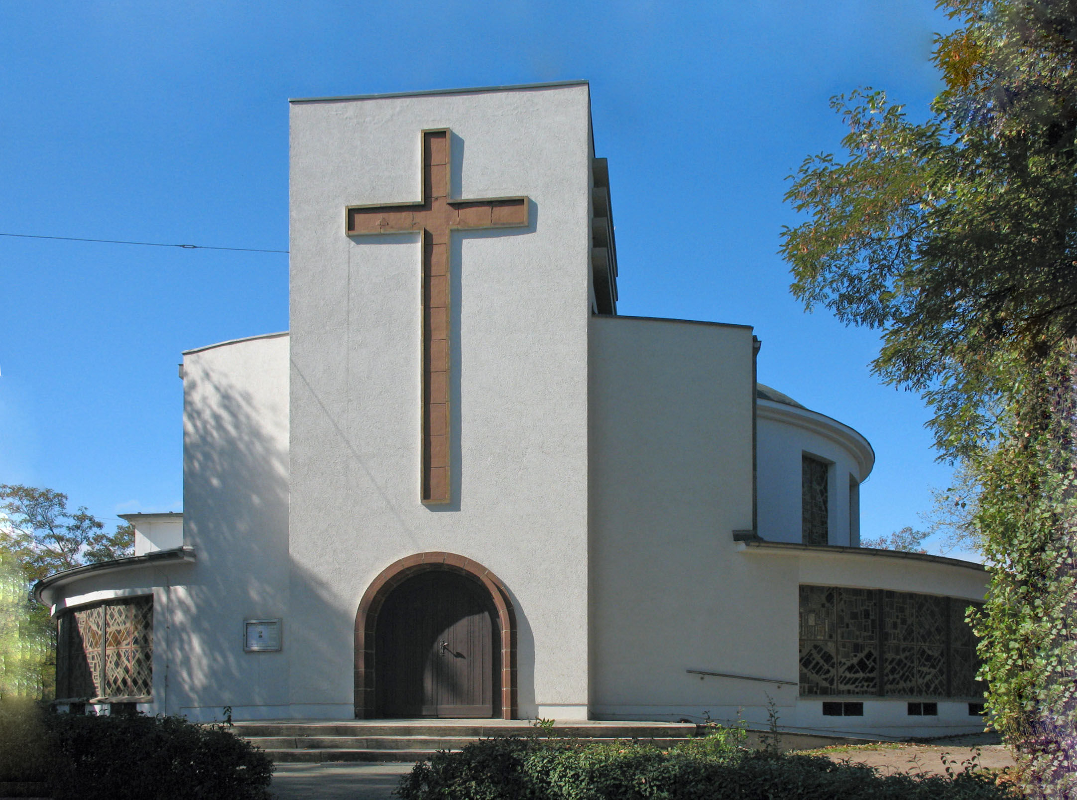 Church in Bad Dürrenberg in Saxony-Anhalt, Germany